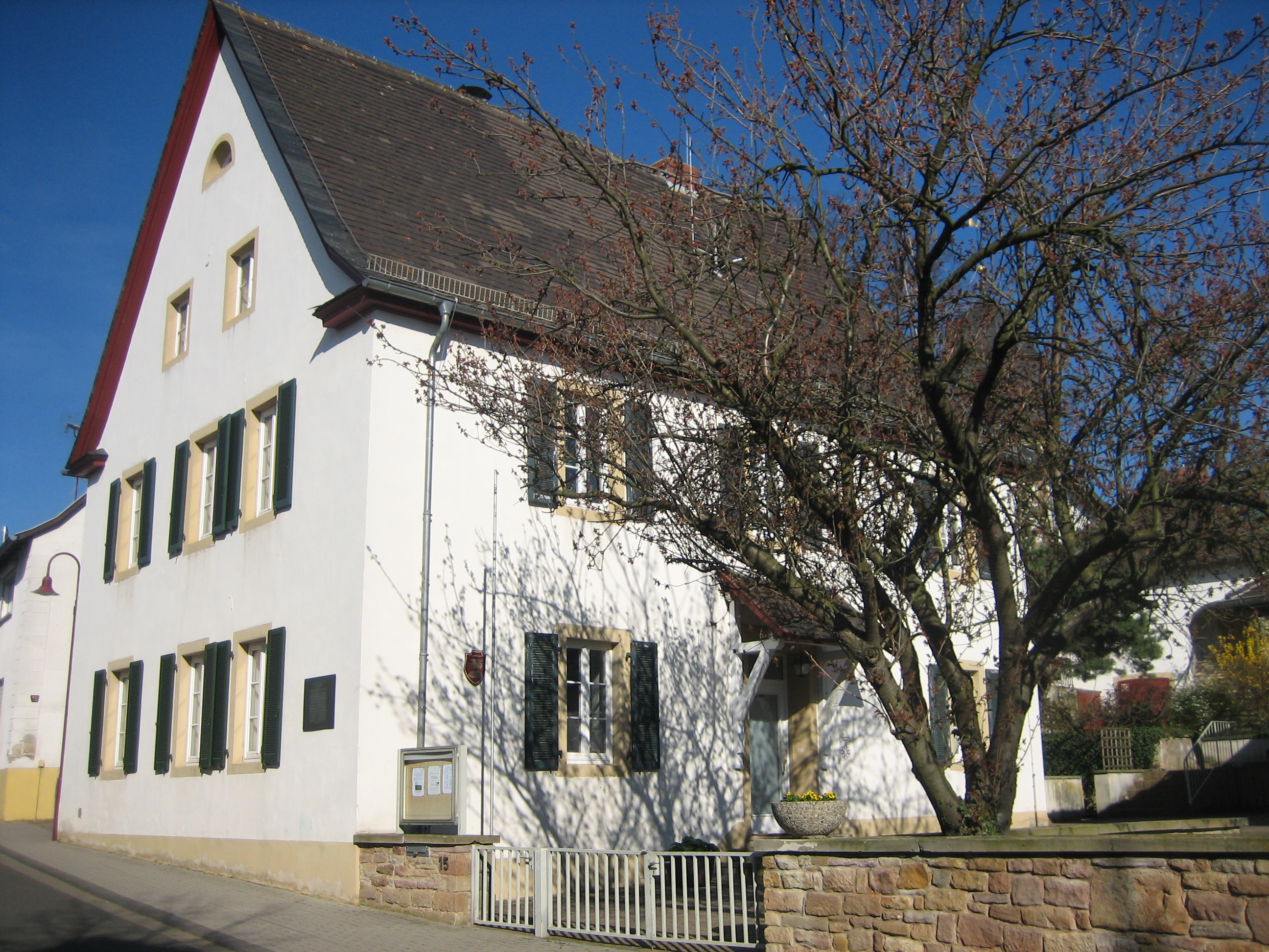 F.Ch.Laukhards birthplace